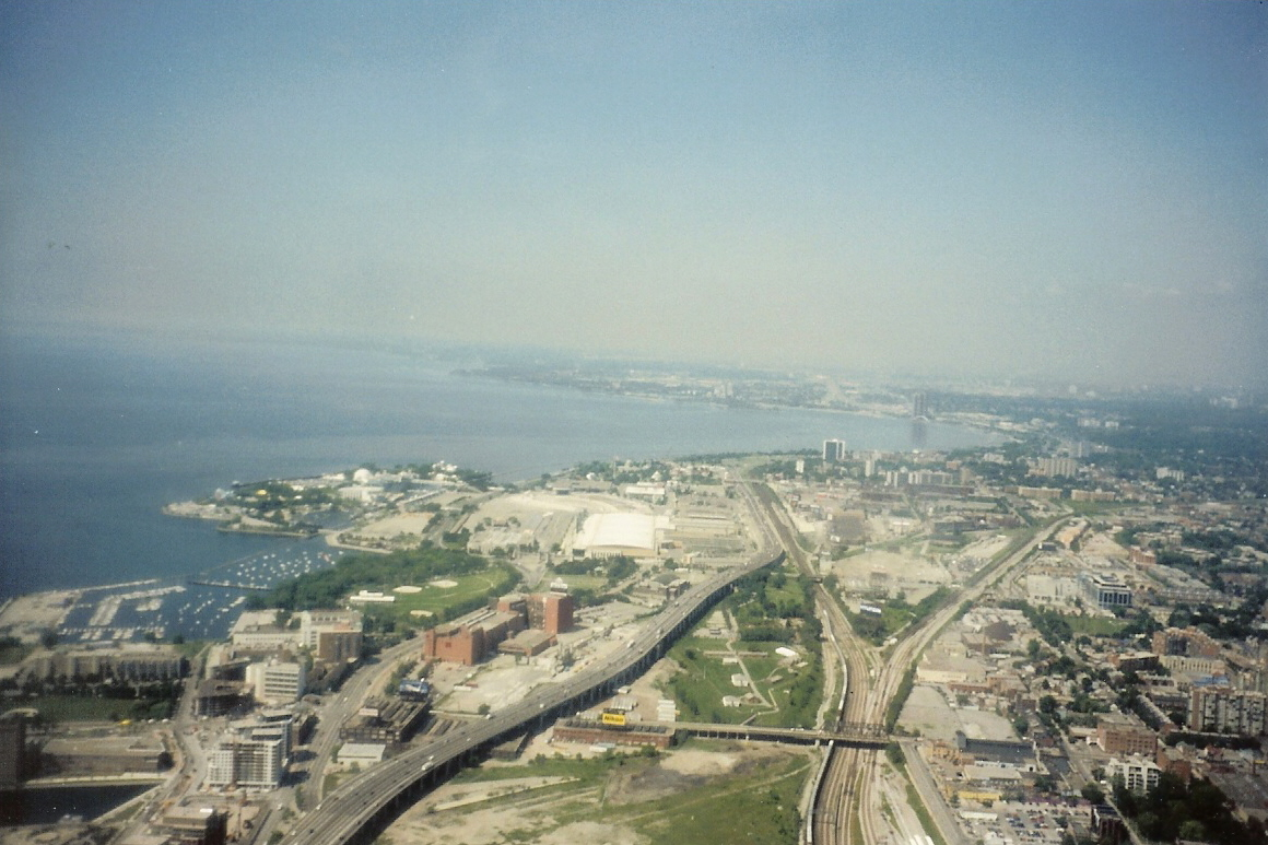 Looking West from the CN Tower, Toronto, Ontario -- 2008-05-10